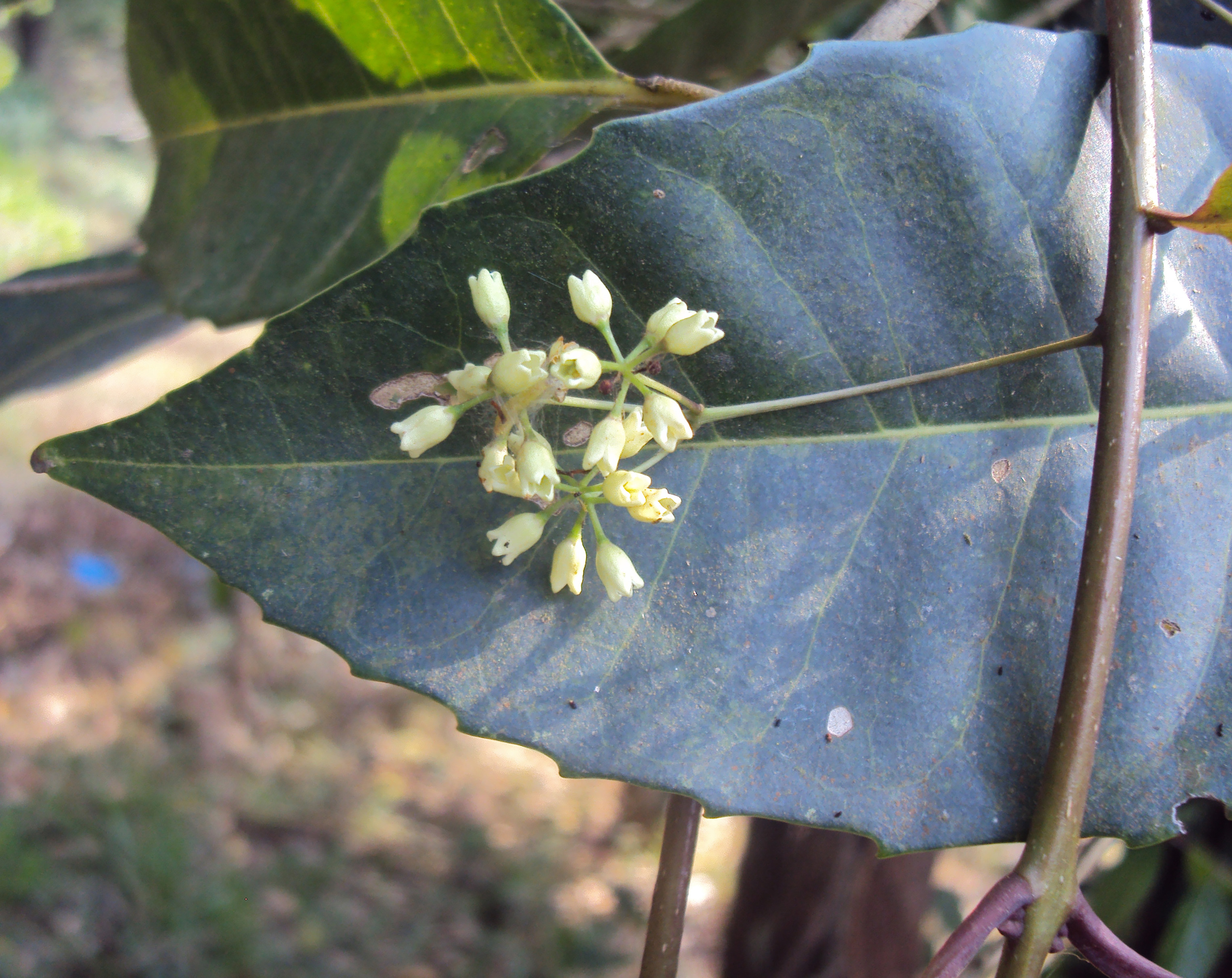 Olea dioica